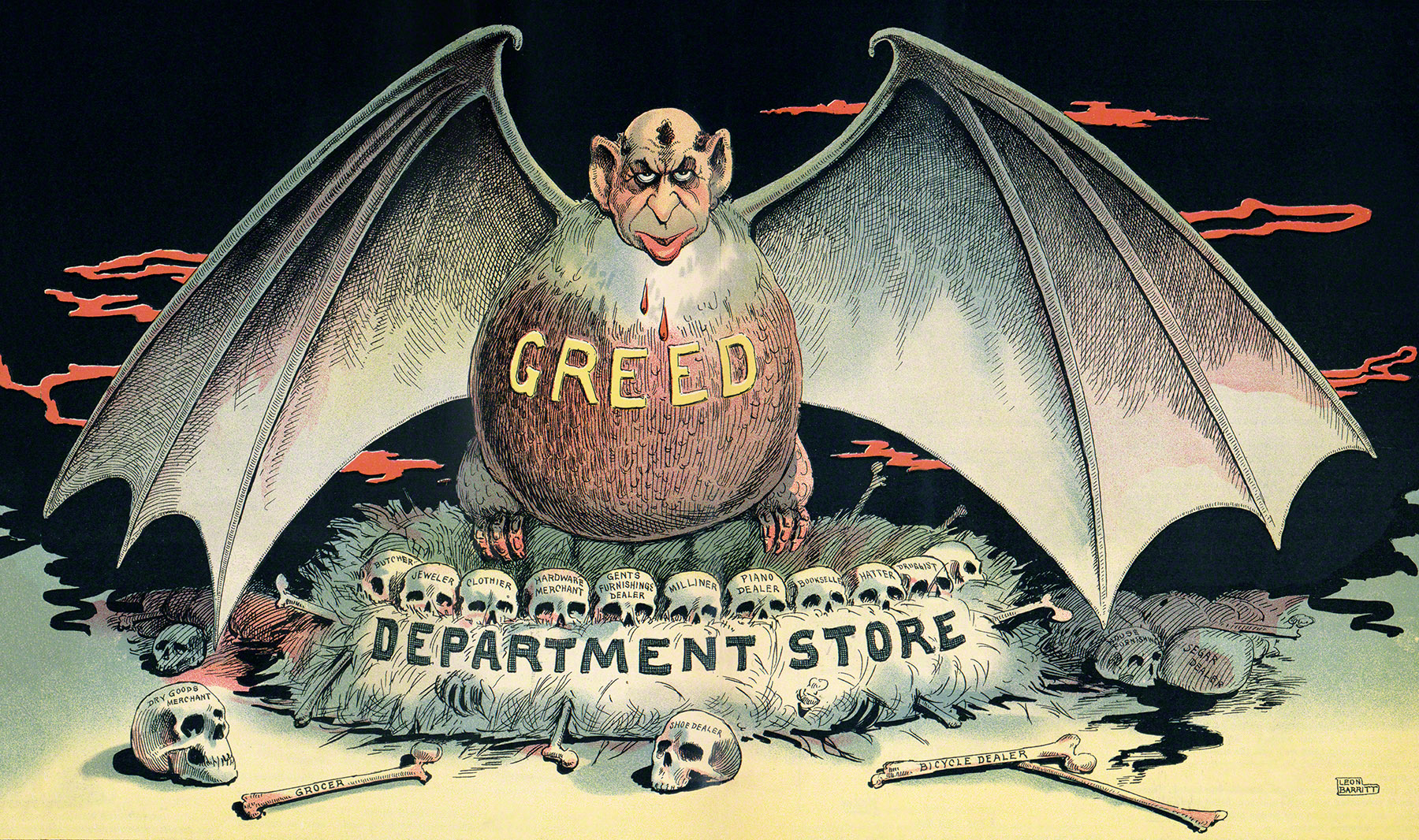 Title: The commercial vampire / Leon Barritt. Creator(s): Barritt, Leon, 1851-1938, artist Date Created/Published: 1898 July 20. Medium: 1 print : chromolithograph. Summary: Illustration shows a bat labeled "Greed" with human head seated on nest ringed with human skulls identified as various commercial establishments. Reproduction Number: LC-DIG-ppmsca-05451 (digital file from original) LC-USZC4-4626 (color film copy transparency) LC-USZC4-4121 (color film copy transparency) Rights Advisory: No known restrictions on publication. Call Number: Illus. in AP101.V55 v. 1 (Case X) [P&P] Repository: Library of Congress Prints and Photographs Division Washington, D.C. 20540 USA Notes: Title from item. Illus. in: Vim, v. 1, no. 5 (1898 July 20), p. 10-11. Published in: Eyes of the nation : a visual history of the United States / Vincent Virga and curators of the Library of Congress ; historical commentary by Alan Brinkley. New York : Knopf, 1997.